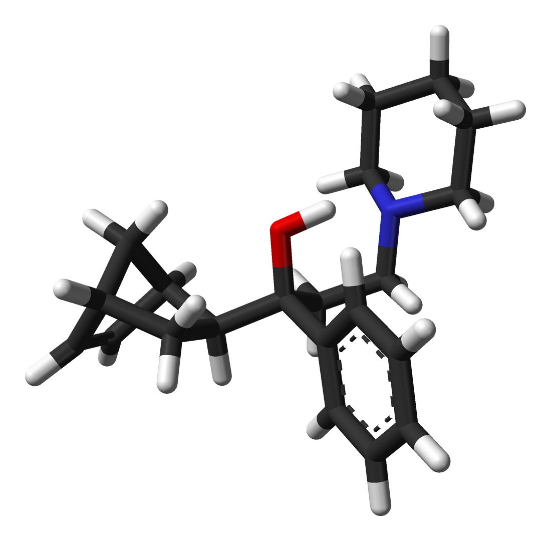 Stick model of the biperiden molecule, based on x-ray crystallographic data from Nobuhiro Marubayashi, Masami Yamashita and Noriaki Hirayama (1999). "Crystal Structure of α-Bicyclo[2.2.1]hept-5-en-2-yl-α-phenyl-1-piperidine-propanol (Biperiden)". Analytical Sciences 15: 815-816.